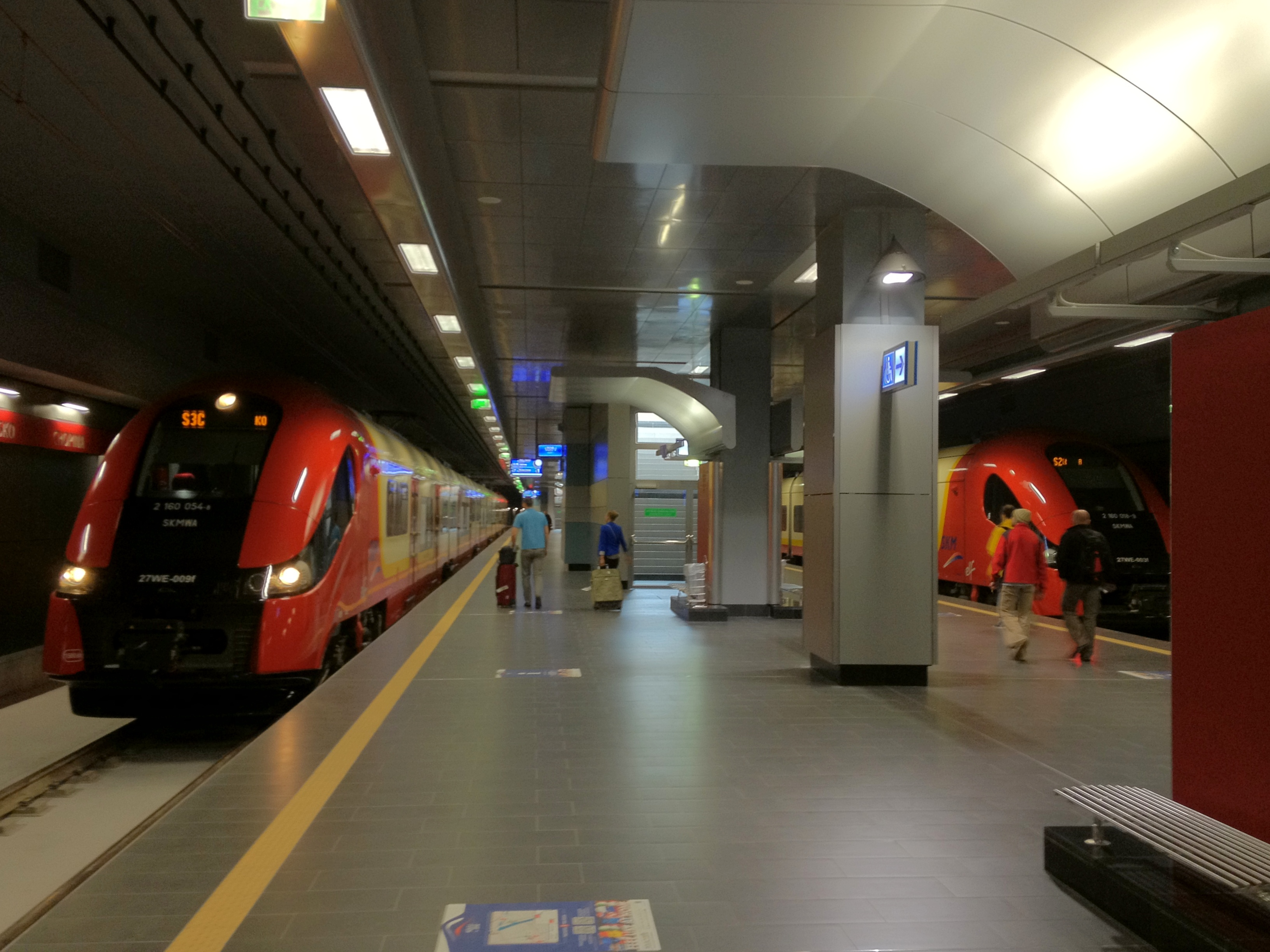 Two Pesa Elf trains of Warsaw's SKM wait at Warsaw Chopin Airport station.